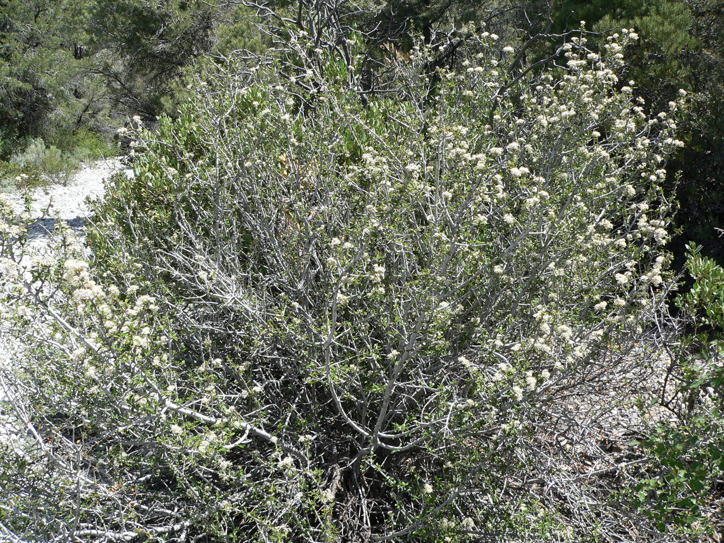 Ceanothus greggii in Carpenter Canyon about 1 km below the road end/turnaround, Spring Mountains, southern Nevada (elev. about 2000 m)